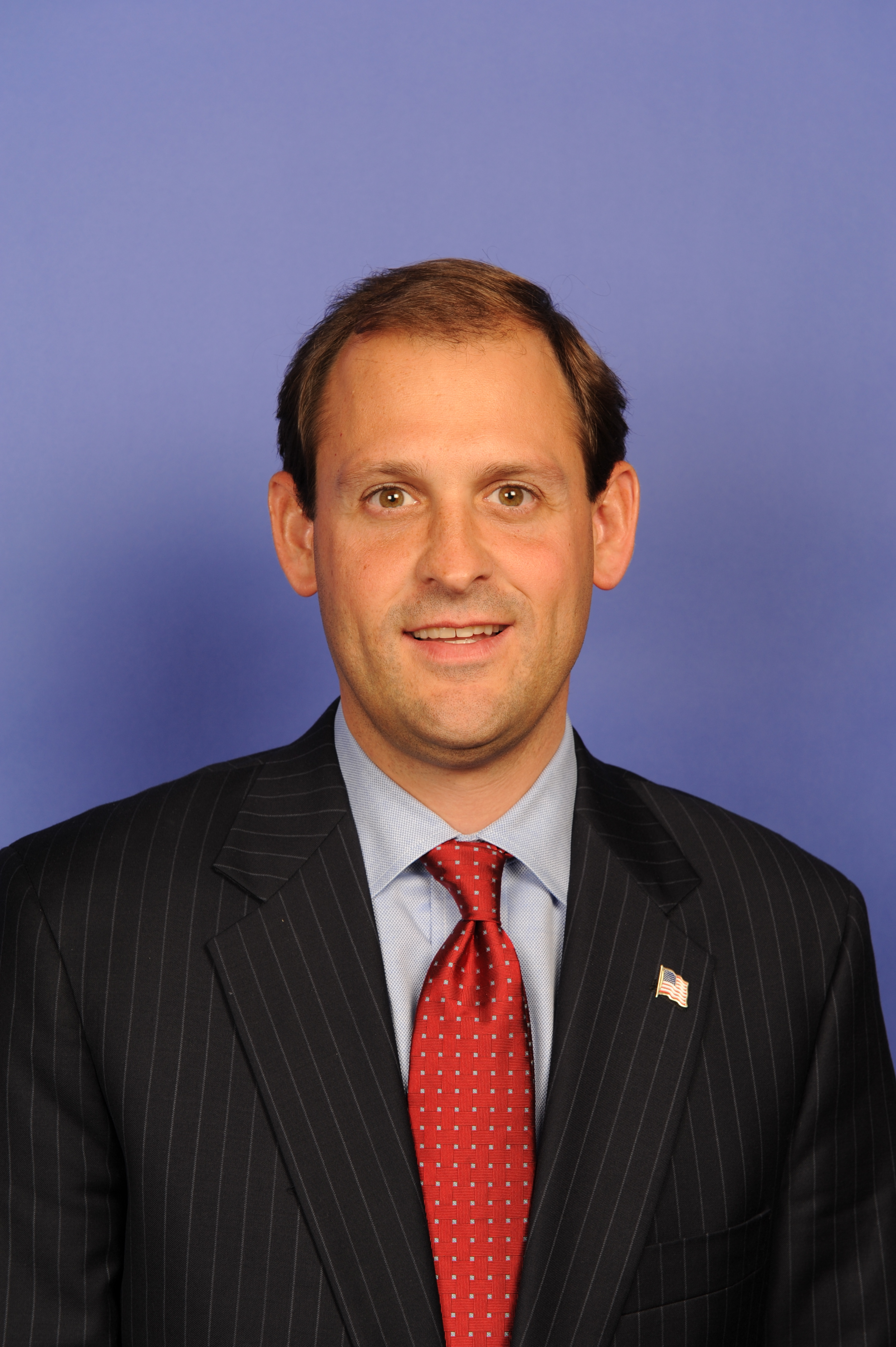 United States Representative Andy Barr.